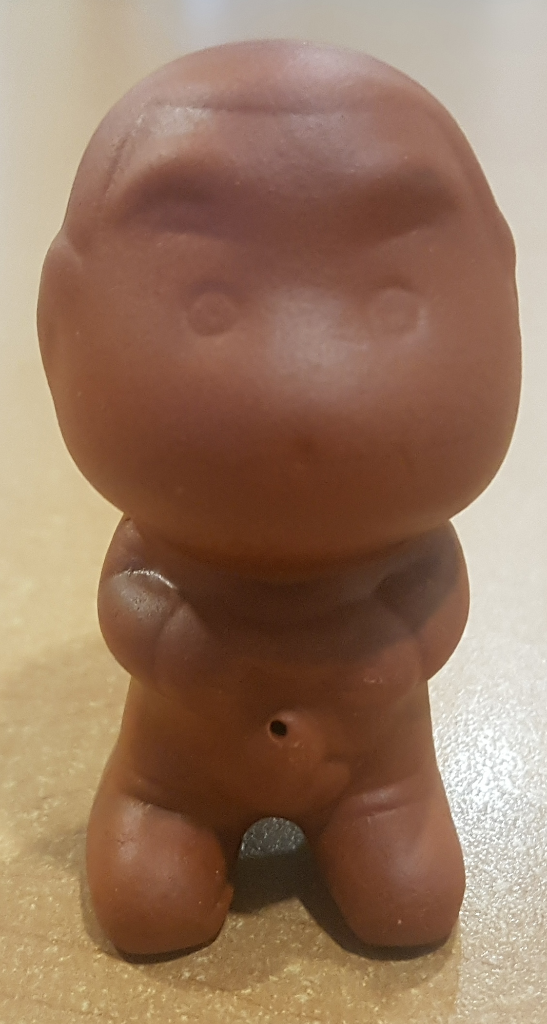 Typical Pee pee boy